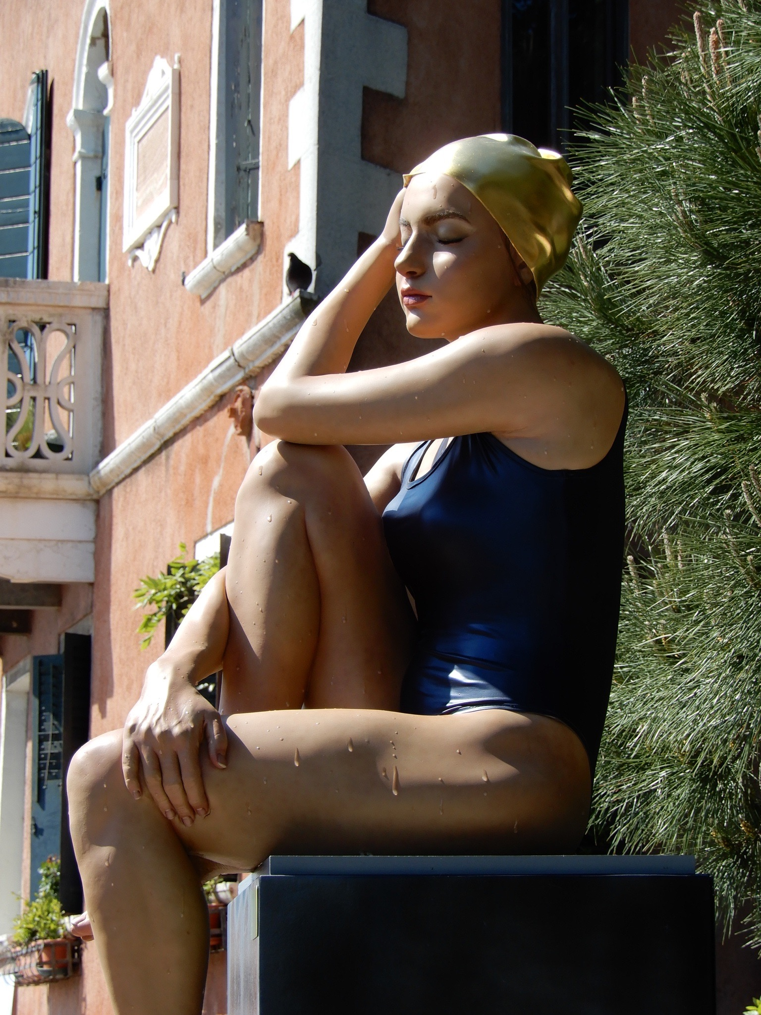 Hyperrealistic sculpture by one of the founders of the genre of Hyperrealism (visual arts), Carole A. Feuerman, measuring 53” x 22” x 16” (134.62” x 55.88” x 40.64”) entitled “The Midpoint” at her solo exhibition at the Giardino della Marinaressa by the 2017 Venice Biennale. Summary of work details below: Title: The Midpoint Year: 2017 Medium: Oil on Resin Dimensions (hwd): 53” x 22” x 16” (134.62 x 55.88 x 40.64 cm)